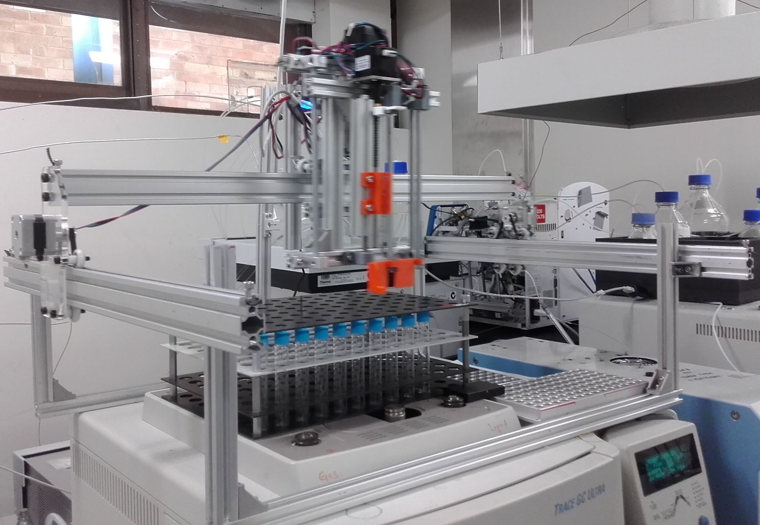 Open-source microsyringe autosampler being used to sample gas headspaces for gas chromatography.